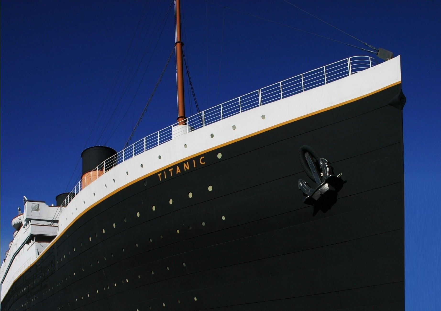 Mock-up of the TITANIC (scale 1:2) in Branson (Missouri, USA), 2016